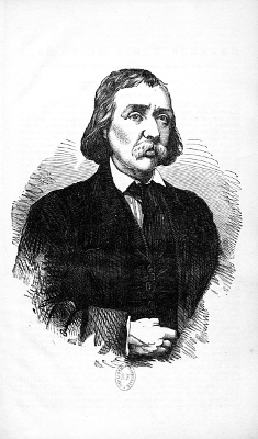 Portrait of Simon François Bernard (1817–1862), French surgeon and republican revolutionary.